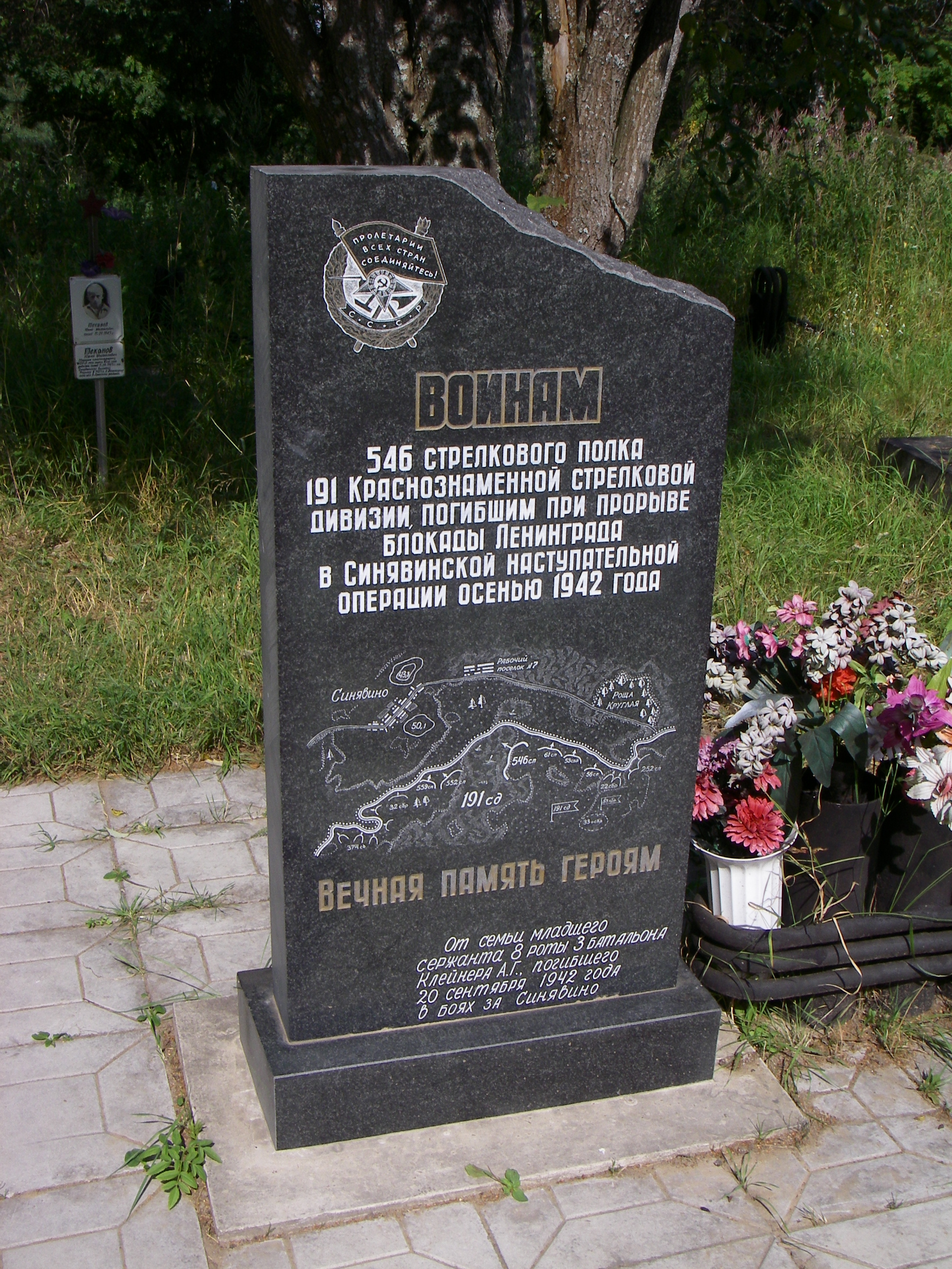 One of the Sinyavino Heights memorials